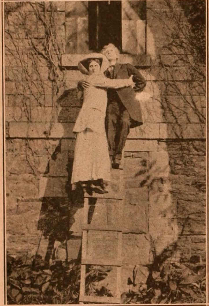 A film still from The Stolen Invention by the Thanhouser Company.